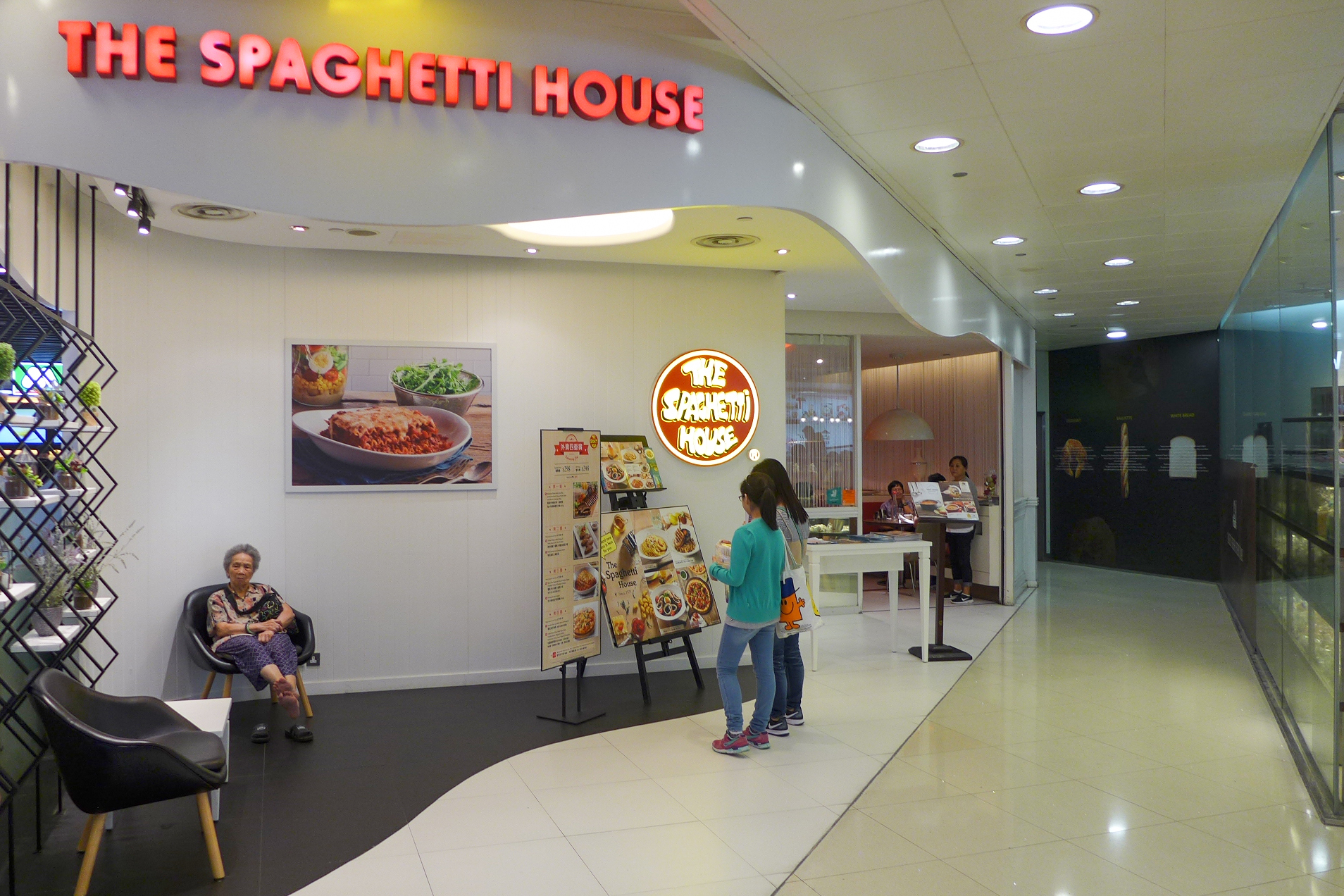 The Spaghetti House in East Point City